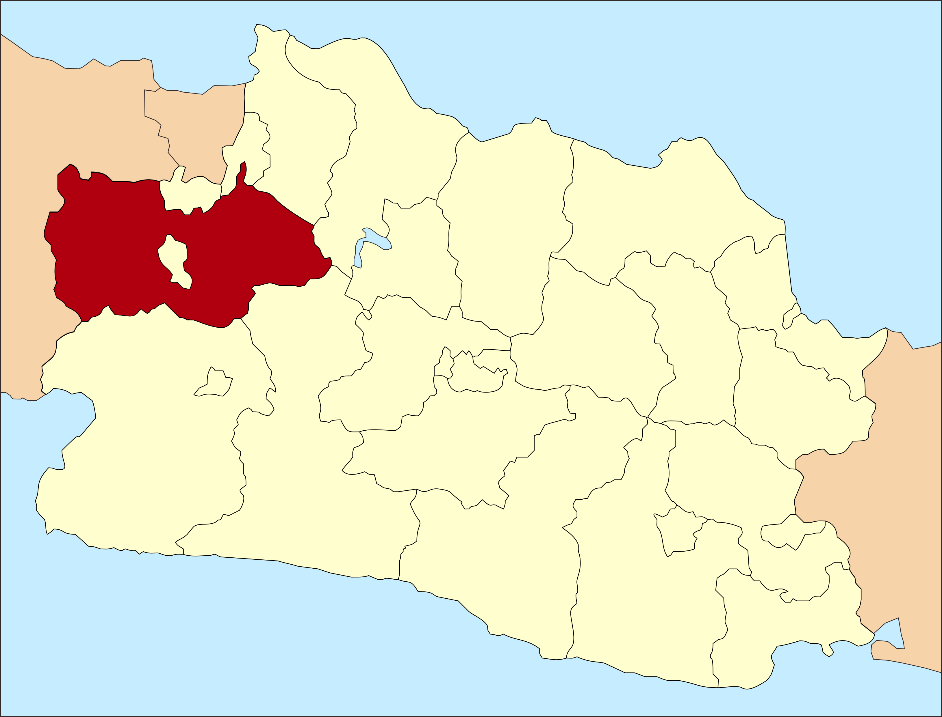 Locator map of Bogor Regency, West Java